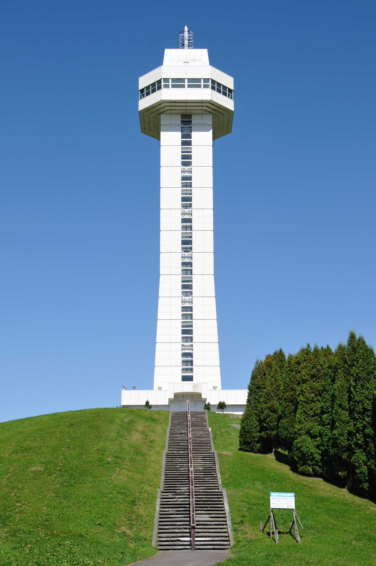 Takikawa 100years memorial tower, Takikawa, Hokkaido, Japan